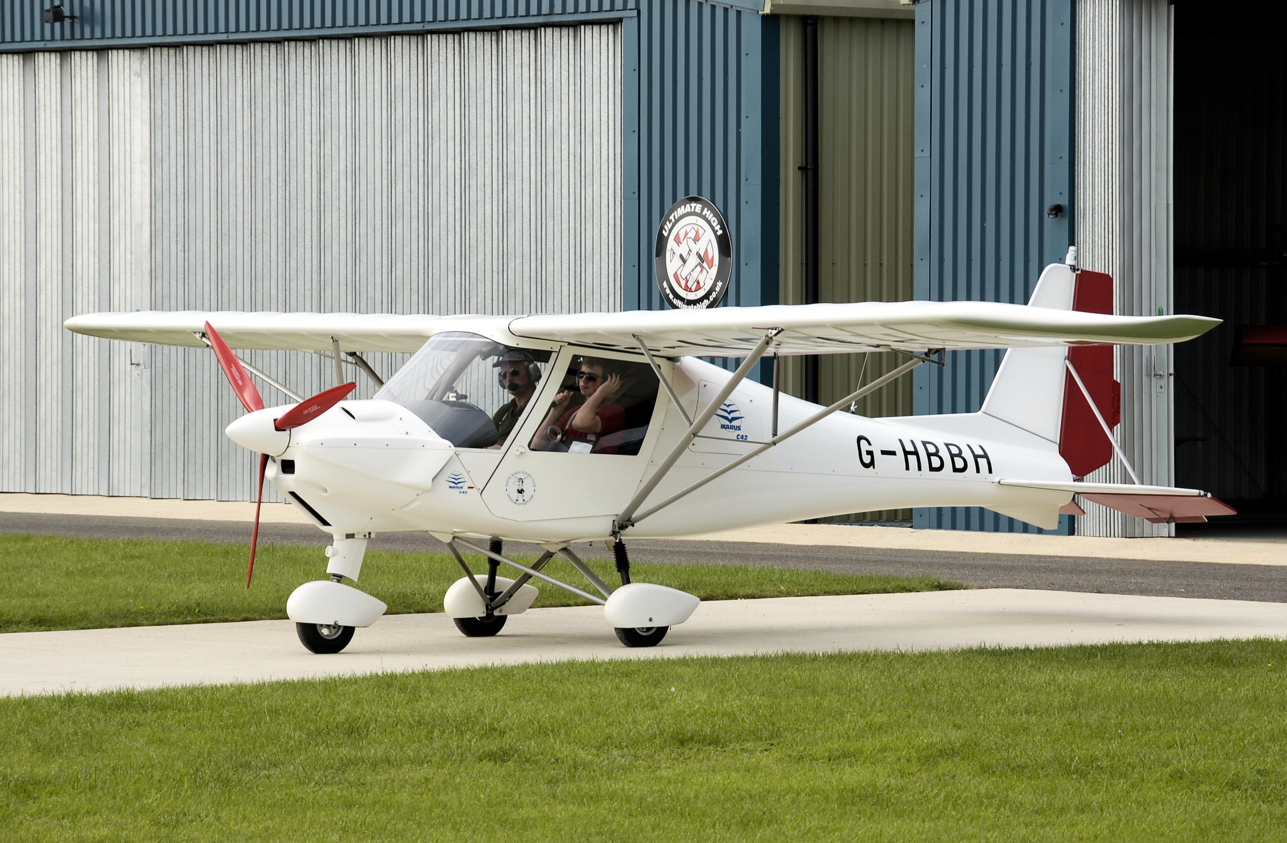 Ikarus C42 microlight at Kemble Airport Open Weekend. This aircraft was built in 2006.